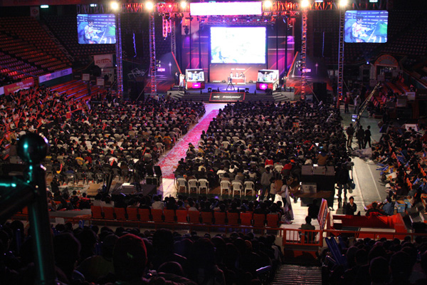 The venue of finals of the 2009 Batoo OnGameNet Starleague, held in South Korea